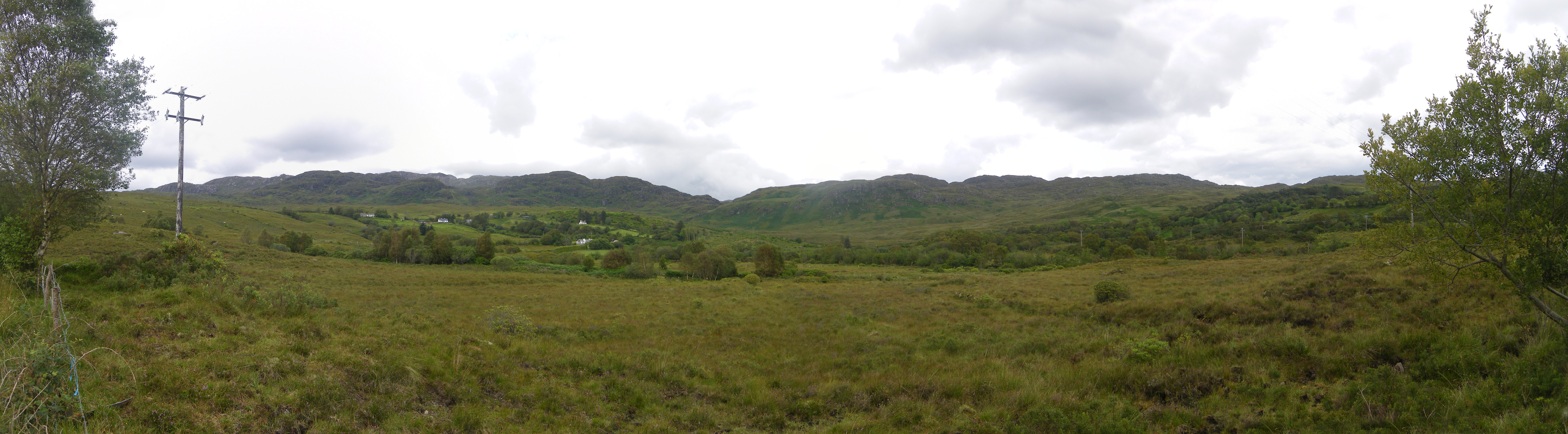 Bluestack Mountains, view from the north of Lough Eske